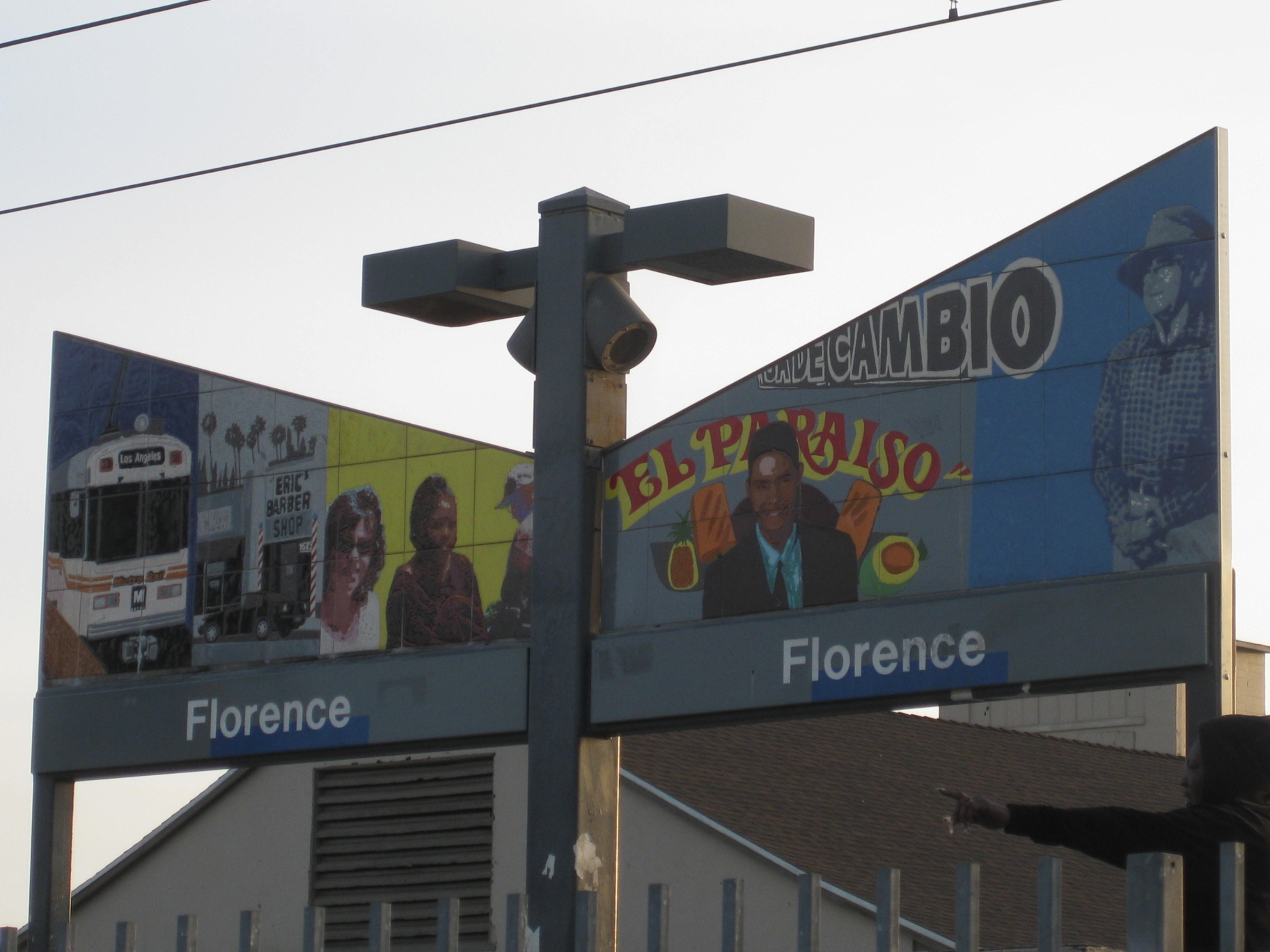 Detail of artwork at Florence station, in the Los Angeles Metro Rail system, in Florence, Los Angeles County, CA.